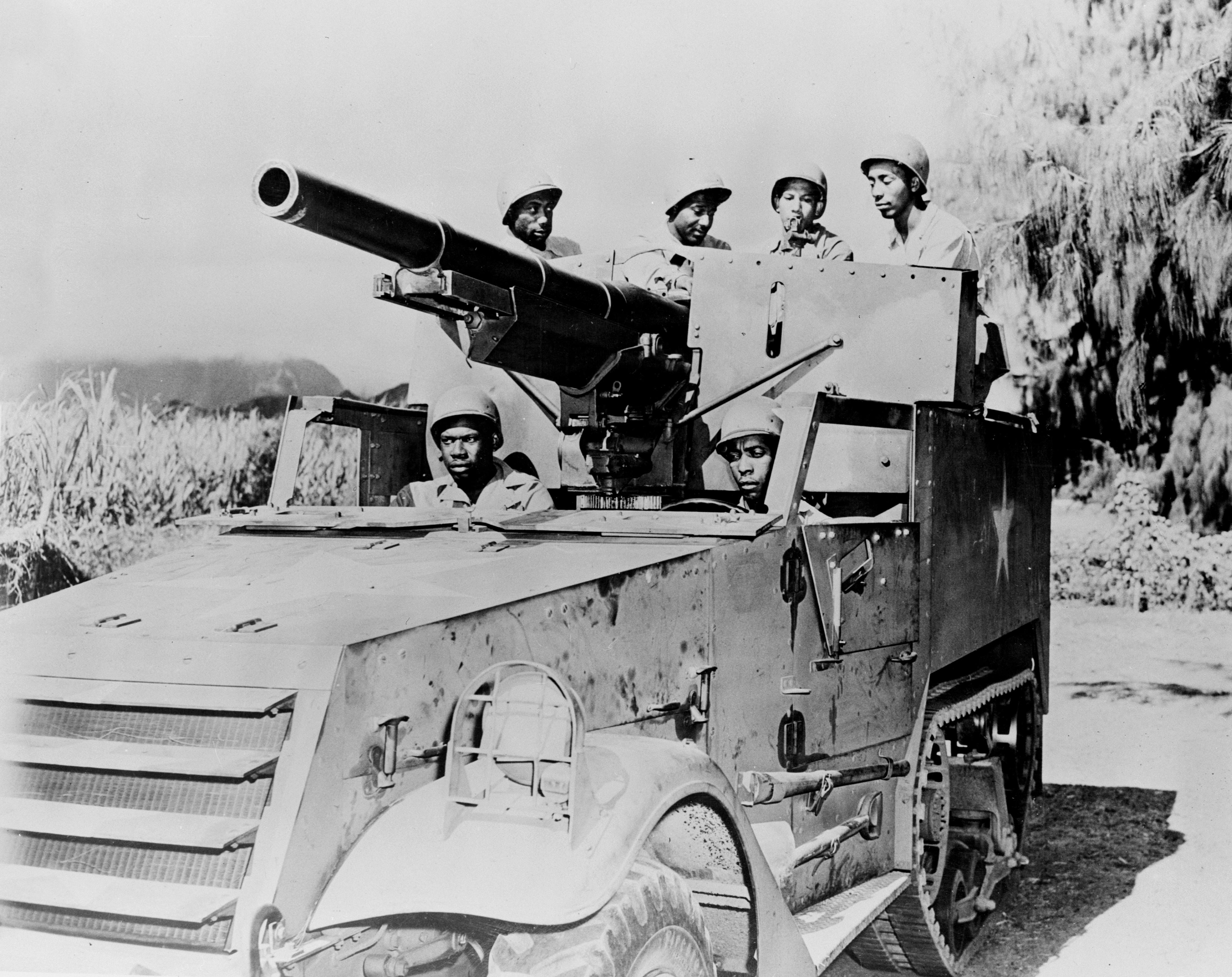 A U.S. Army M3 75mm Gun Motor Carriage manned by soldiers of Afro-American descent.